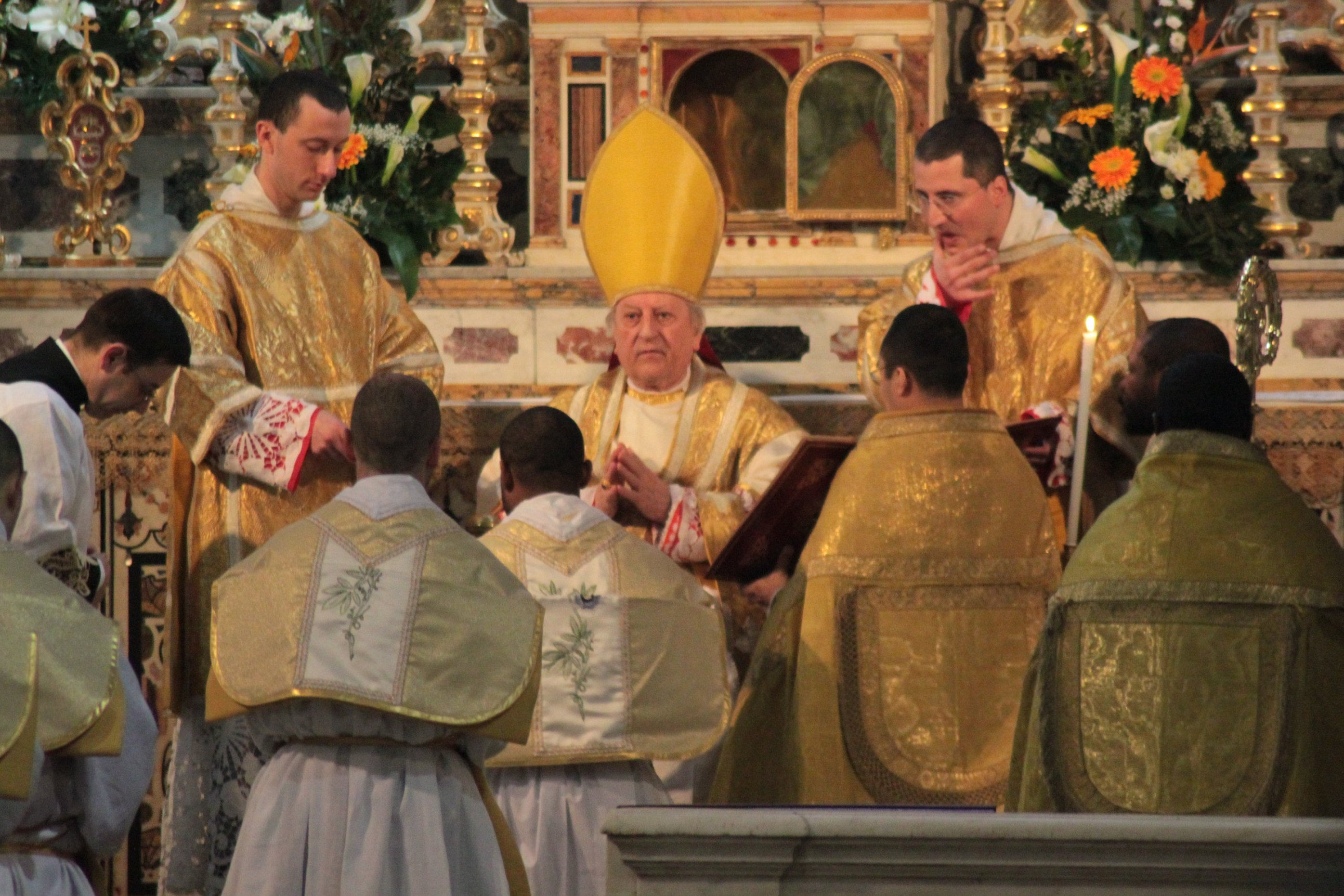 Priestly Ordinations for the Franciscan Friars of the Immaculate in Ognissanti, Florence celebrated in the Extraordinary Form of the Roman Rite by H.E. Franc Cardinal Rodé - The ordinands prepare for anointing.